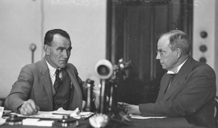 NSW Politicians Mr. Tom Shannon and J. J. Cahill talking at a desk, New South Wales, c. 1930s.